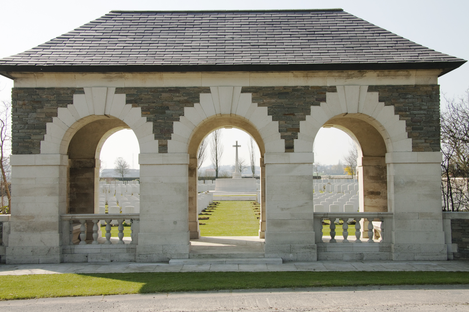 Entrance to the cemetery.